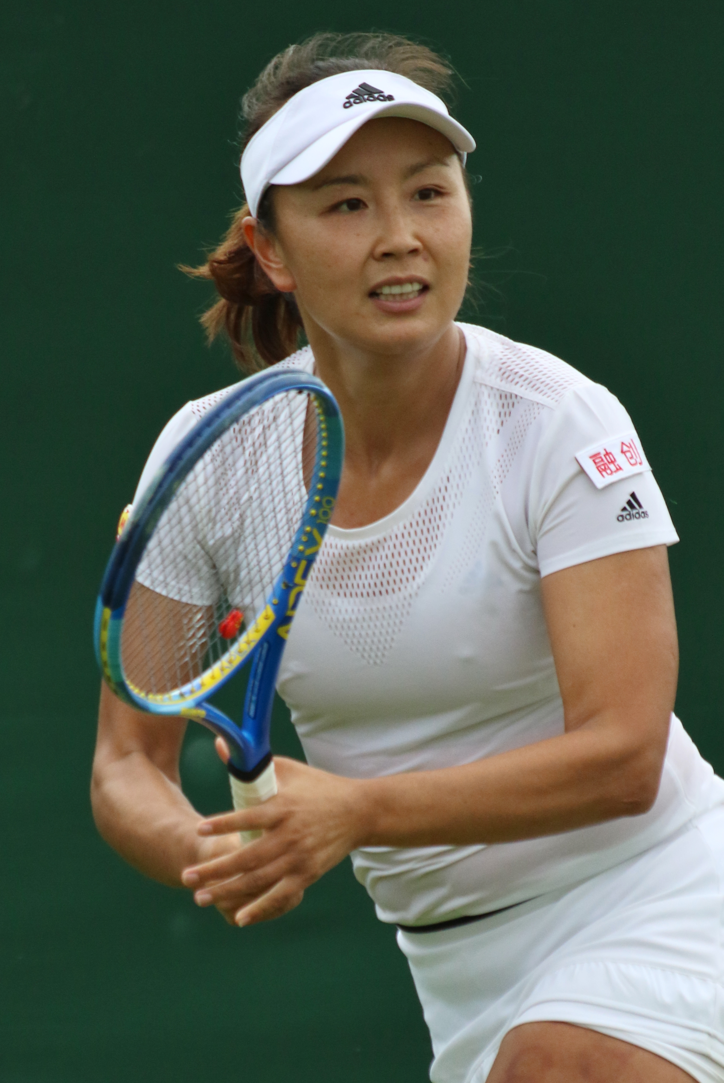 2019 Wimbledon Qualifying Tournament.